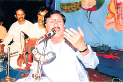 Vid. M G Venkata Raghavan in a Concert